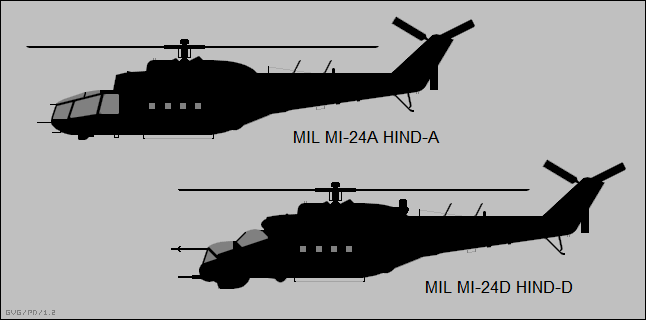 side-view silhouettes of Mil Mi-24 variants